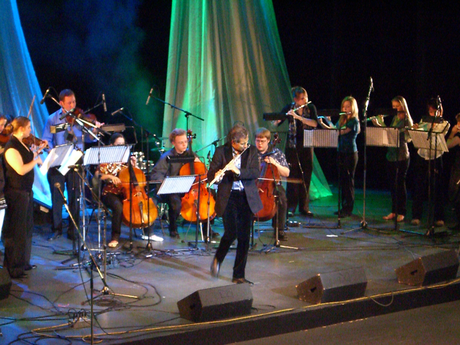 Nestor Torres at the One World Week 2007 World Music Concert, University of Warwick, England.